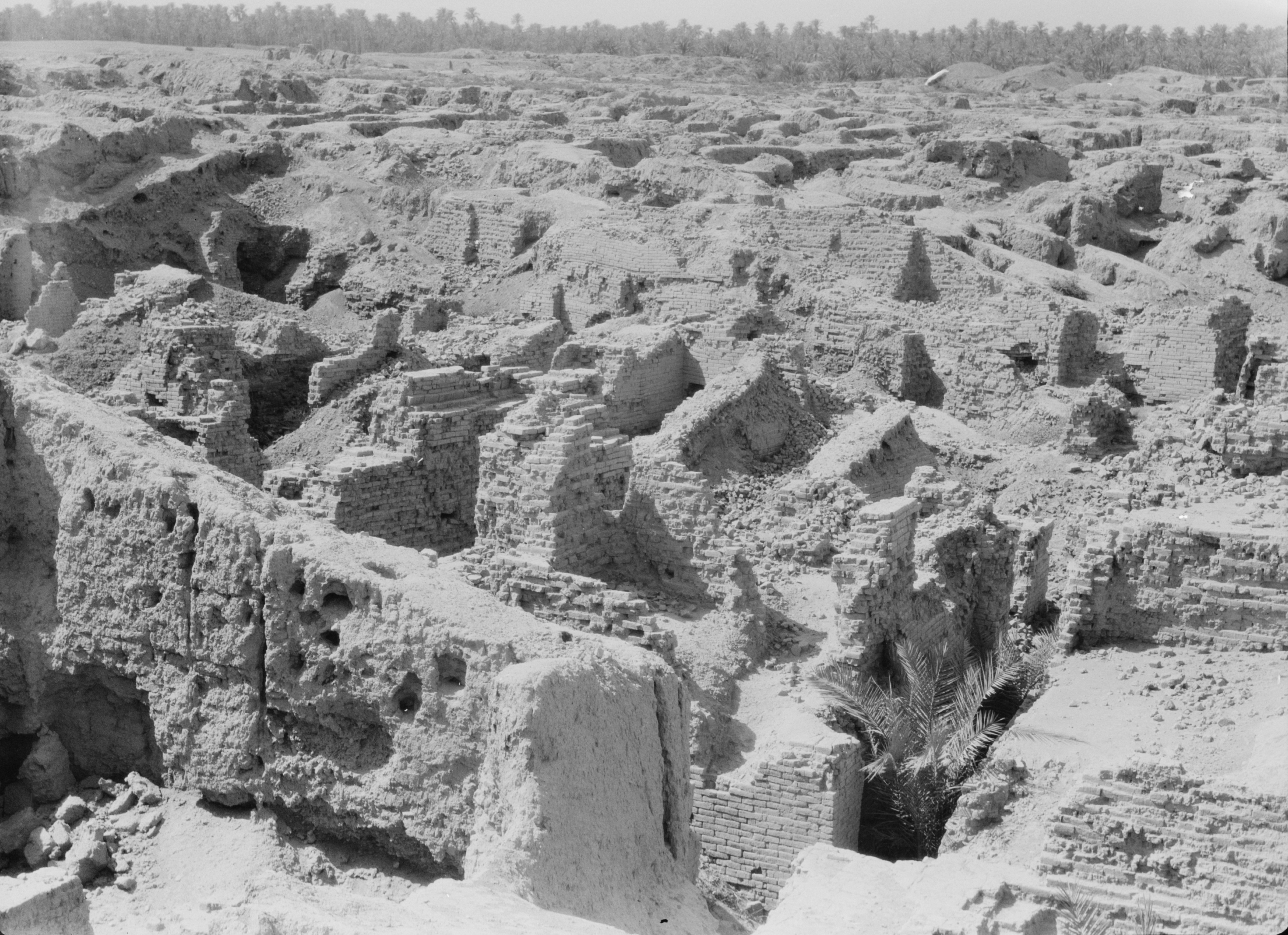 Babylon, Iraq, 1932 CALL NUMBER: LC-M33- 14474[P&P] REPRODUCTION NUMBER: LC-DIG-matpc-13231 (digital file from original photo) PART OF: G. Eric and Edith Matson Photograph Collection REPOSITORY: Library of Congress Prints and Photographs Division Washington, D.C. 20540 USA DIGITAL ID: (digital file from original photo) matpc 13231 CARD #: mpc2005007825/PP